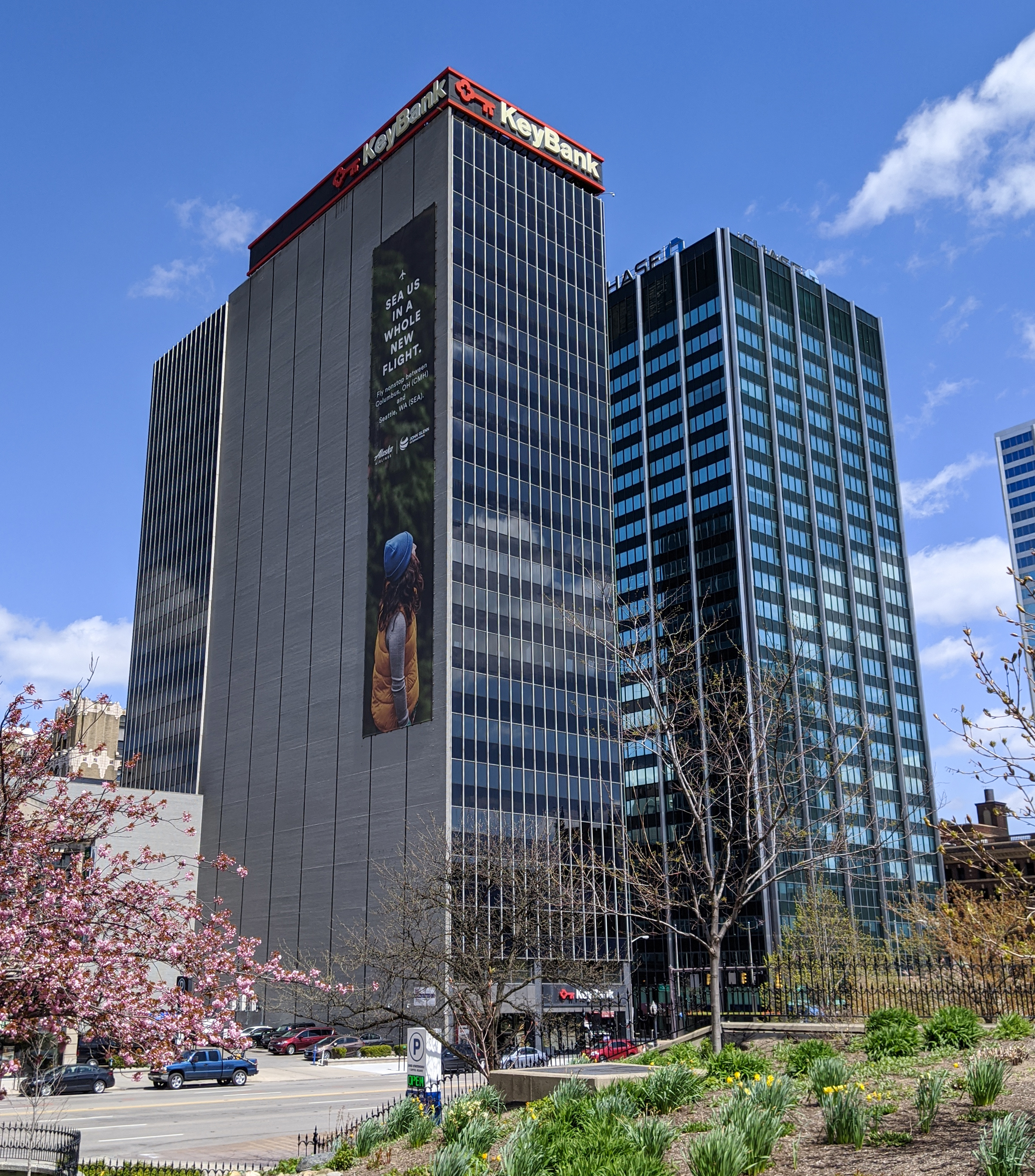 Key Bank and Chase in downtown Columbus, Ohio.